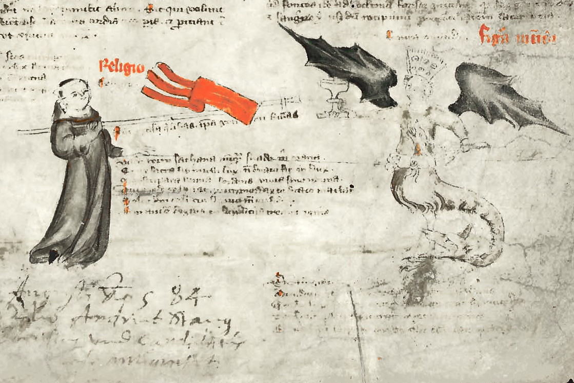 This is a detail from the medieval manuscript Heinemann Nr 40. It was found in a Benedictine monastery and was first published around 1340. This particular detail features a monk dispelling a devil by using a Catholic church religious formula.